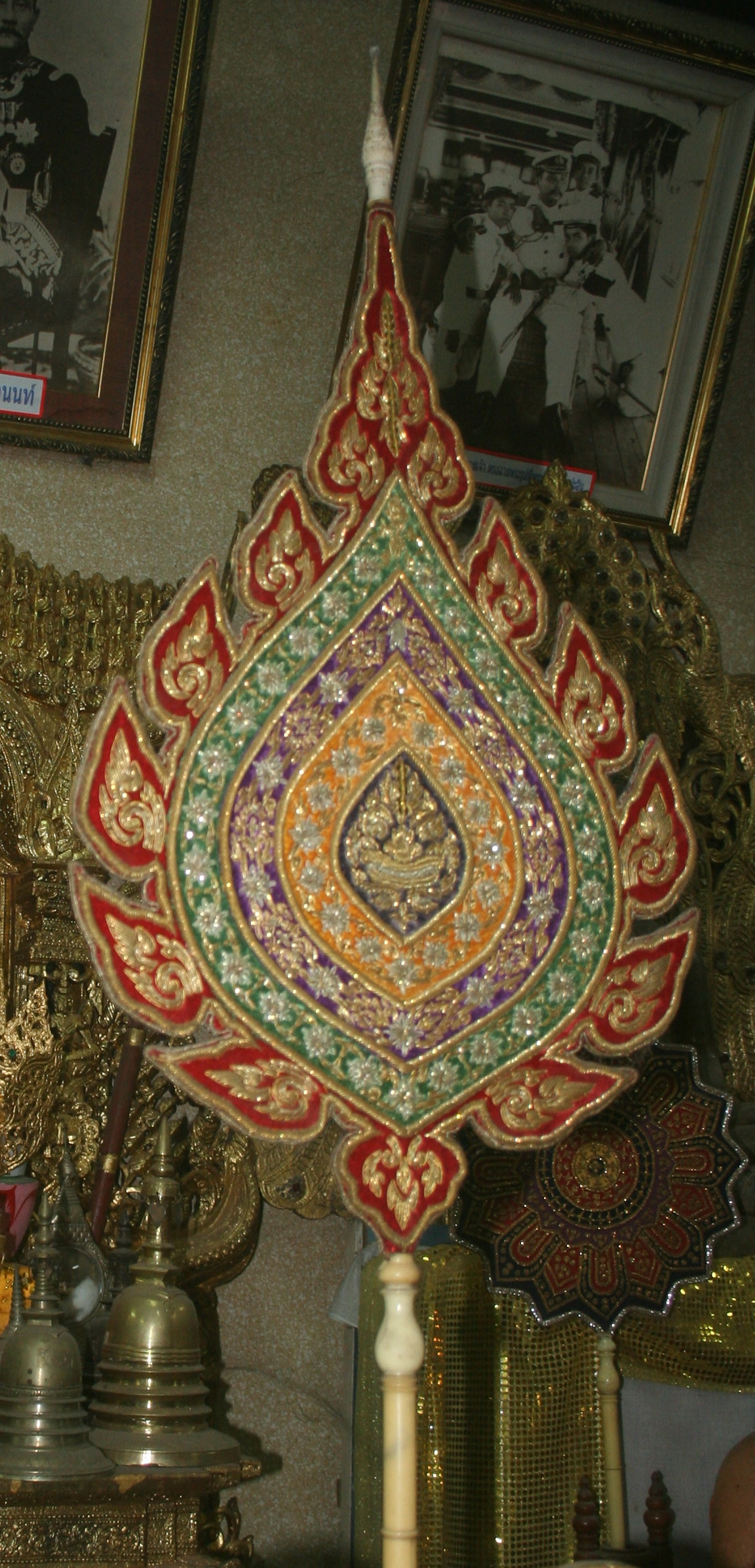 tarapat or fan of rank